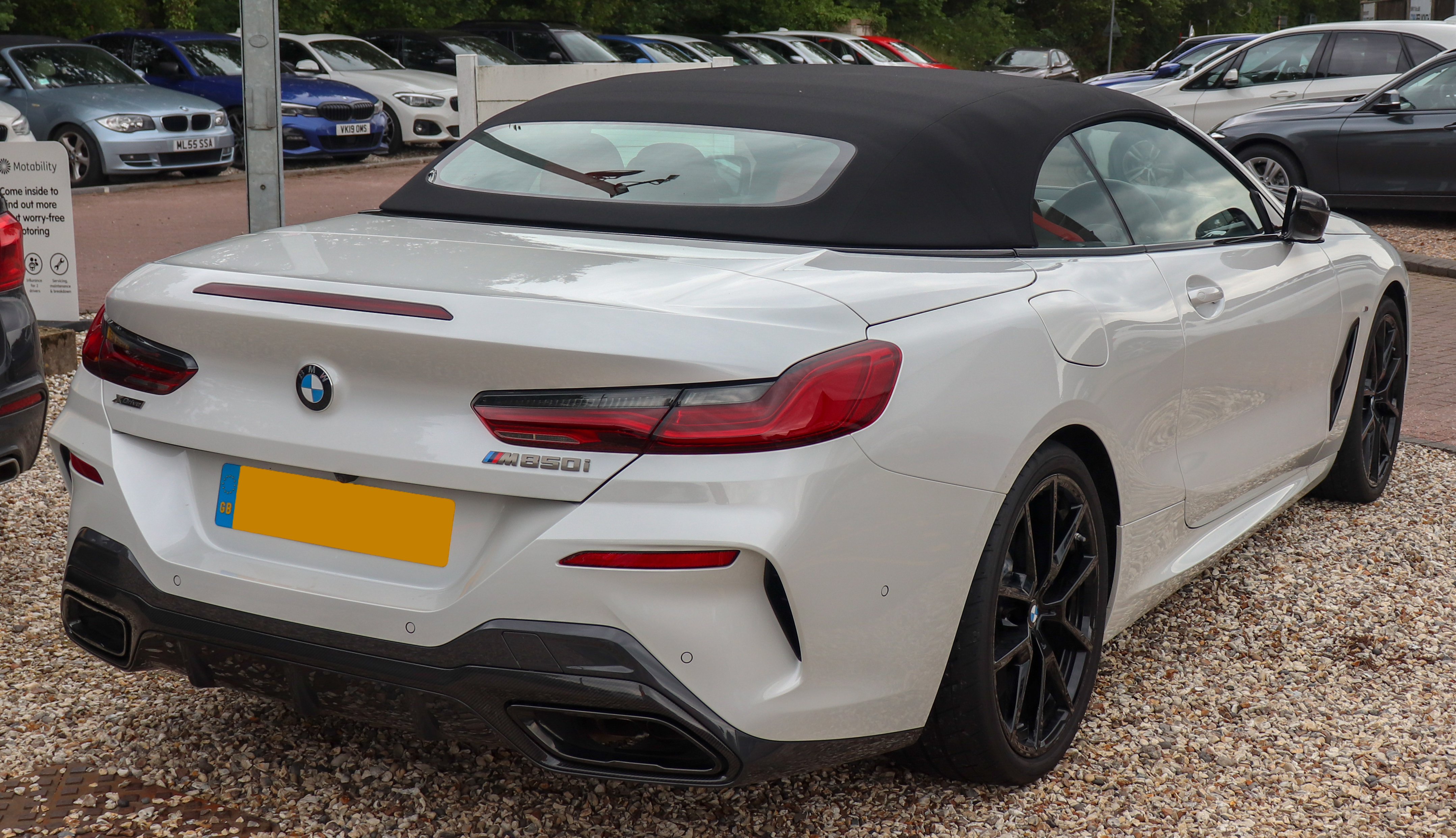 2019 BMW M850i xDrive Automatic 4.4 Rear Taken in Leamington Spa